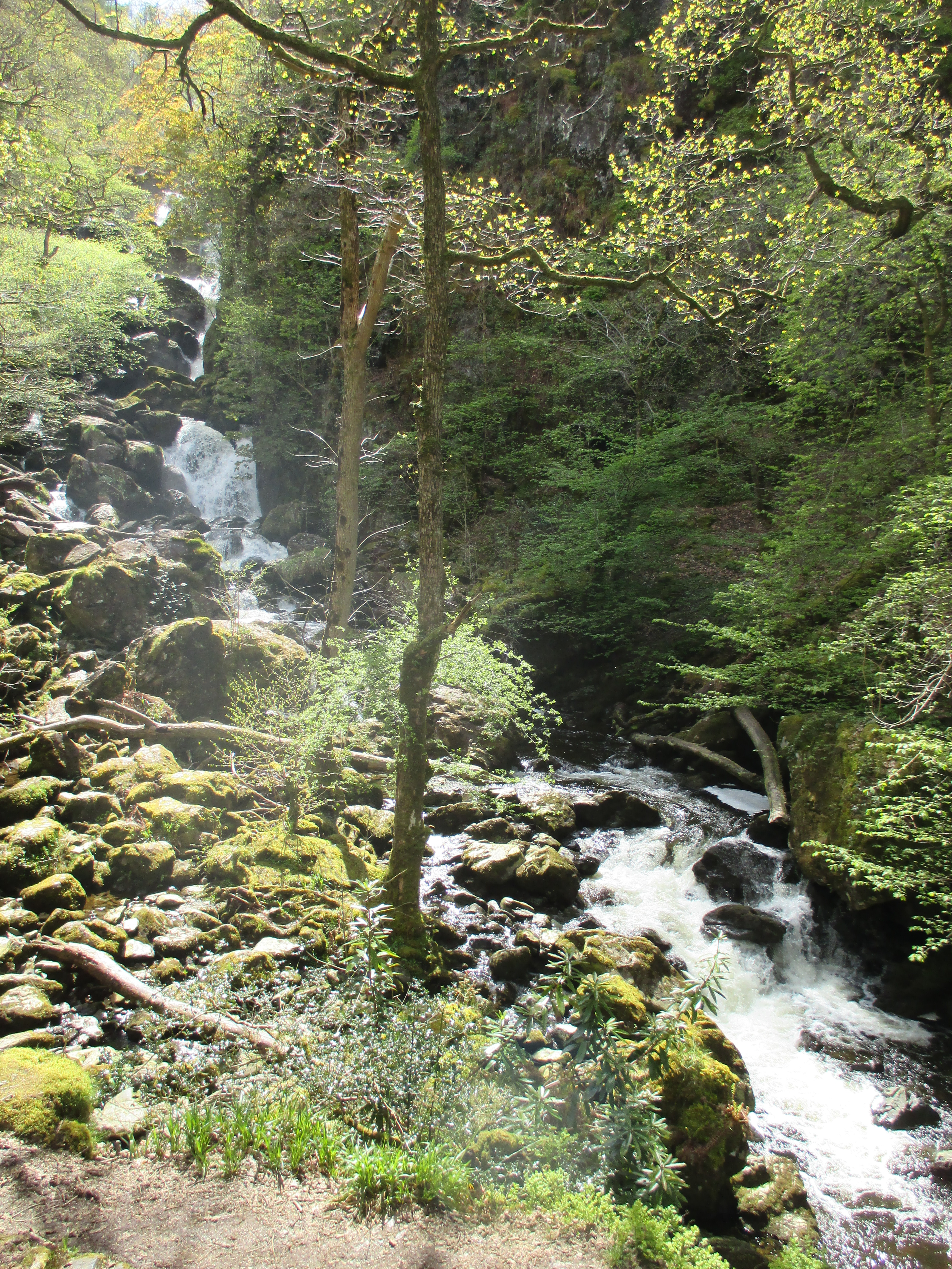 Lodore Falls, Borrowdale, Cumbria, photographed from behind the Lodore Falls Hotel.